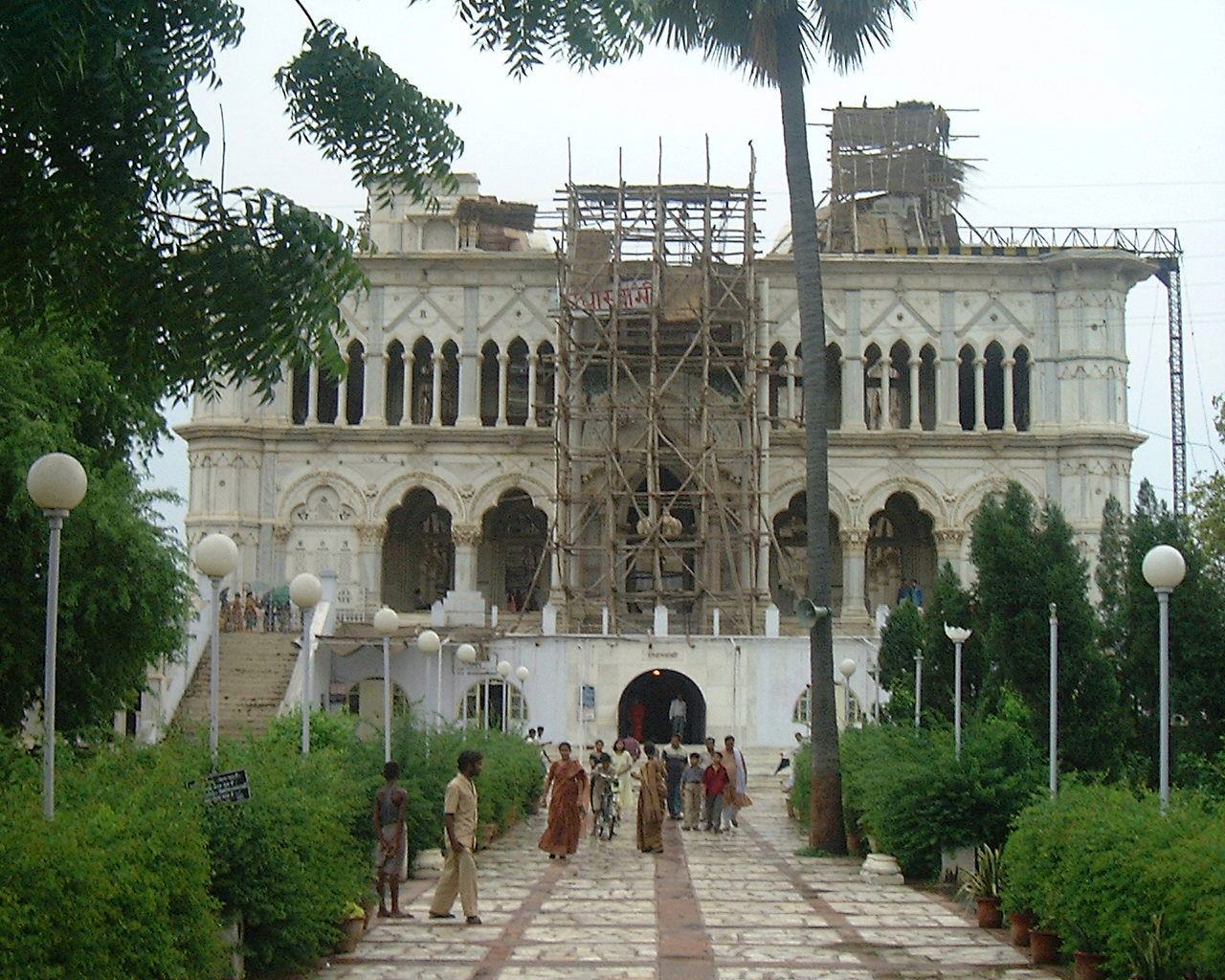 Soami Bagh under construction is June 2001